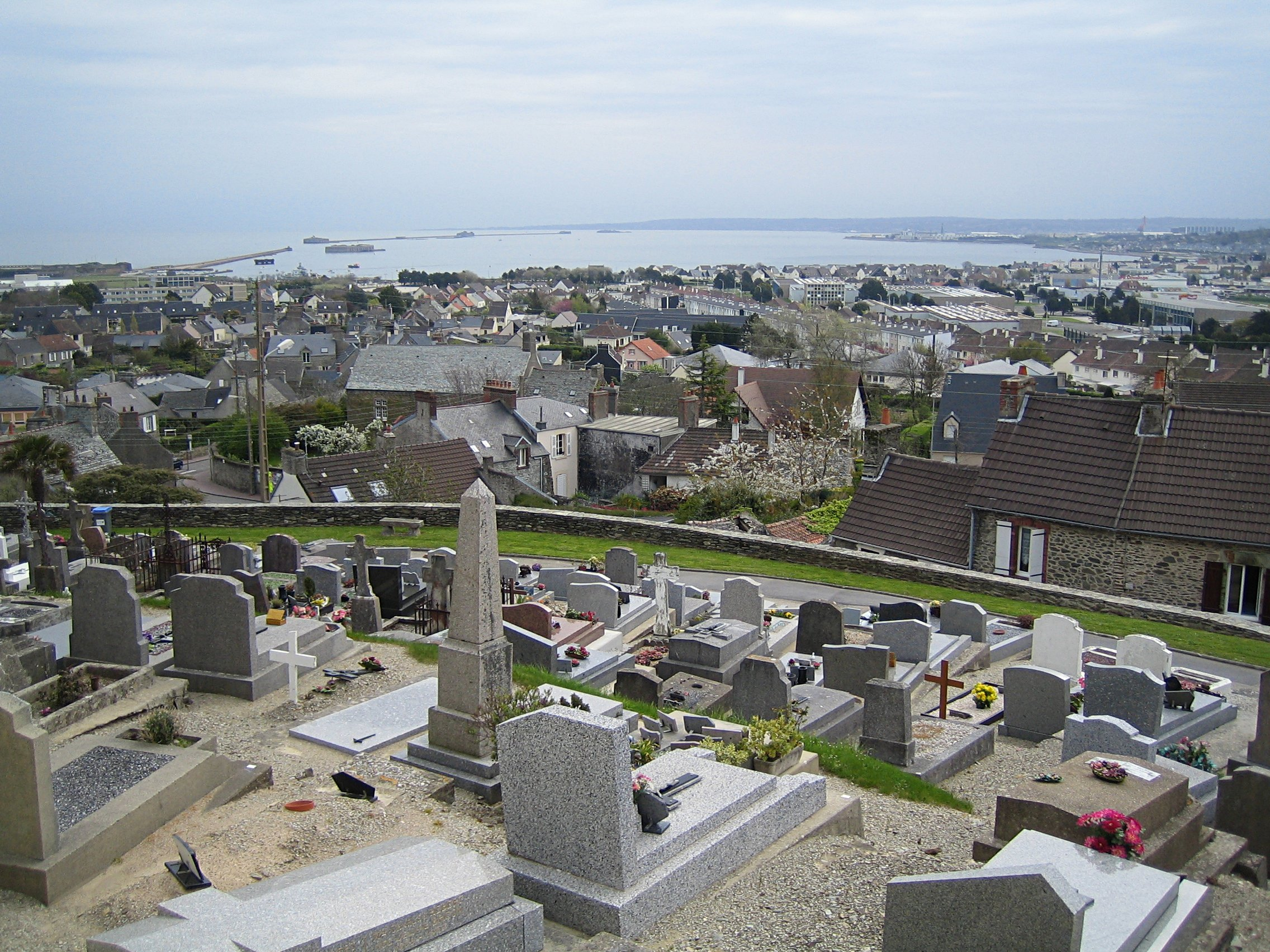 Querqueville (France, Manche): view over the Cherbourg roadstead from the cemetary of Querqueville